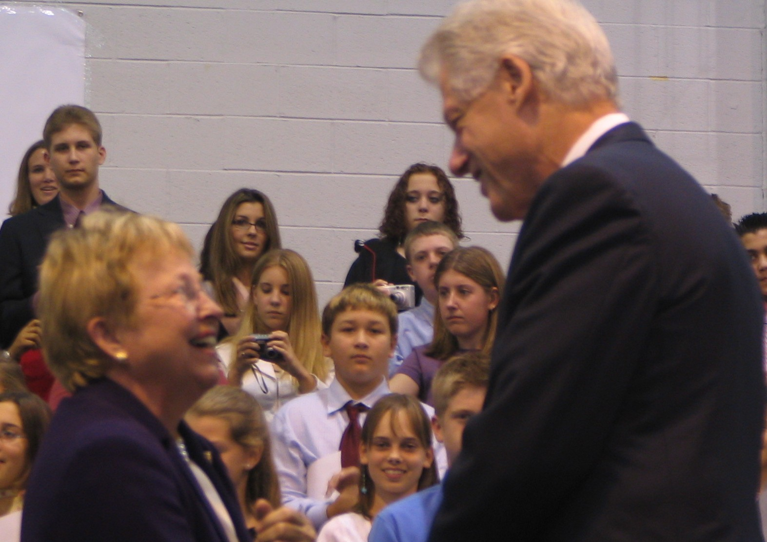 Nancy Johnson welcomes former President Bill Clinton to Western Connecticut State University in Danbury.